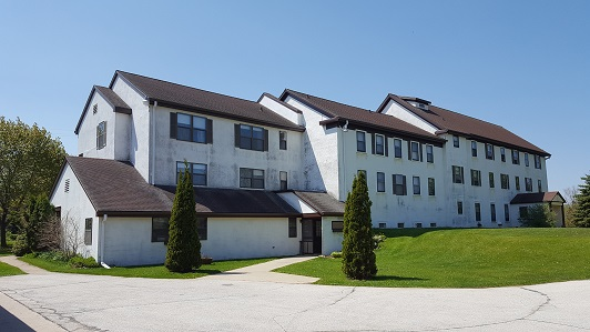 Holy Resurrection Monastery in 2016